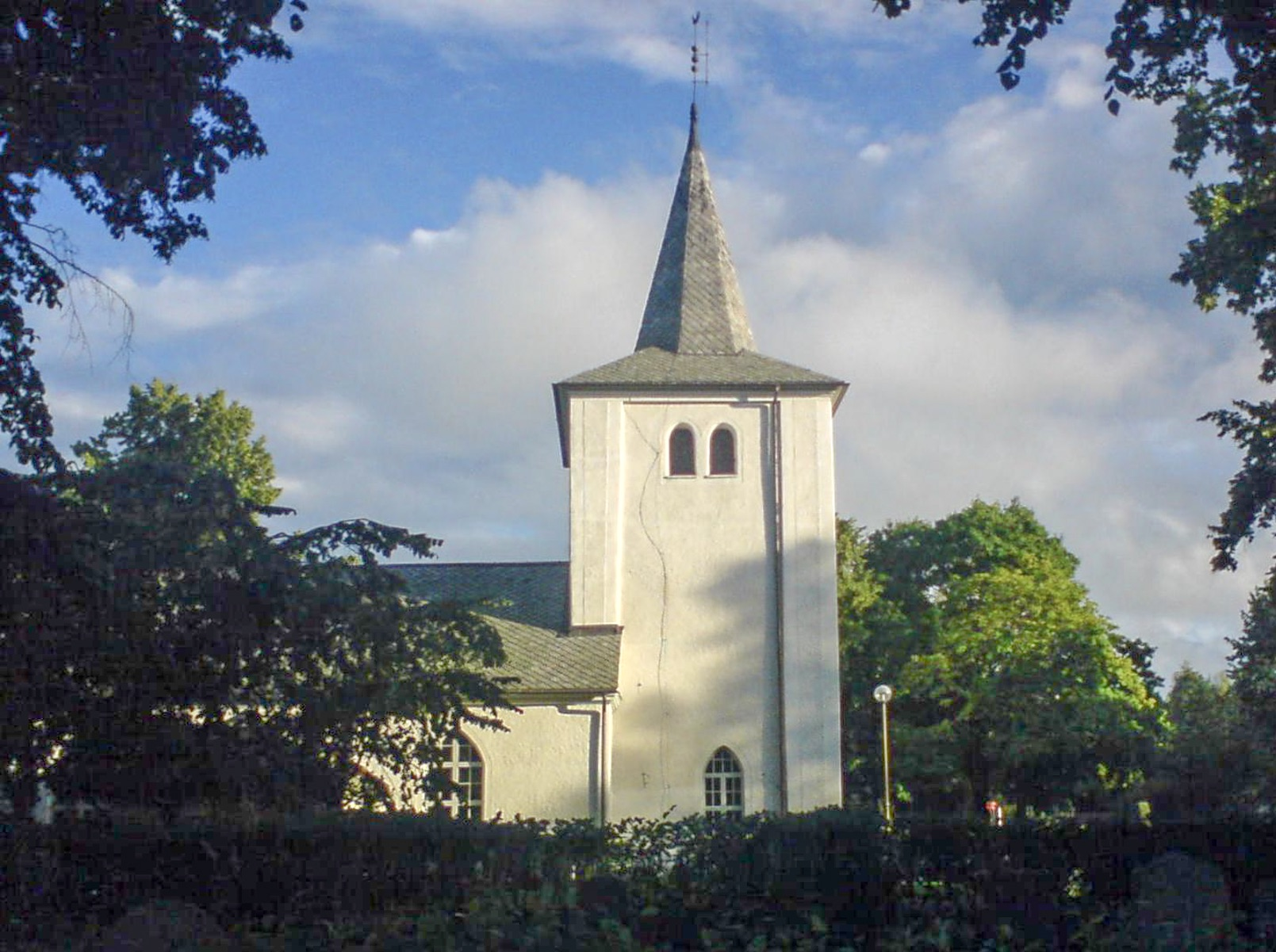 Parish church of Östra Fågelvik parish from the south Östra Fågelviks församlingskyrka från söder